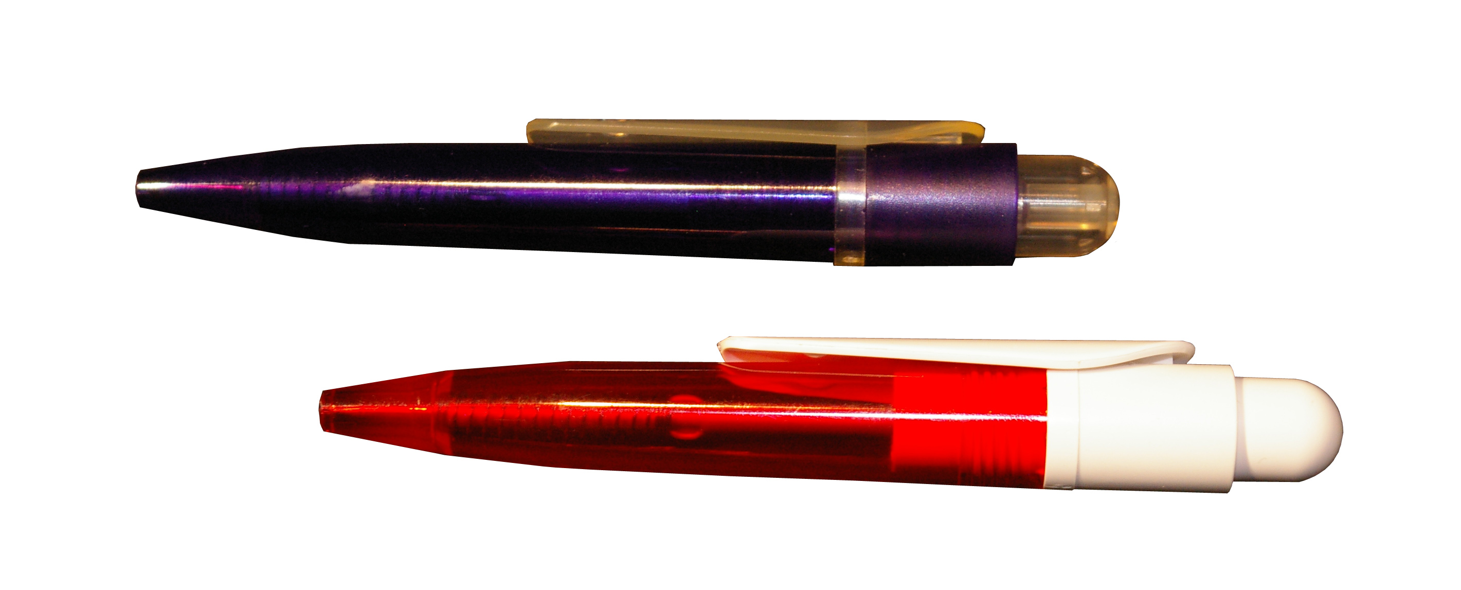 Ball_Pen_made_from_Cellulose_Acetate_Biograde